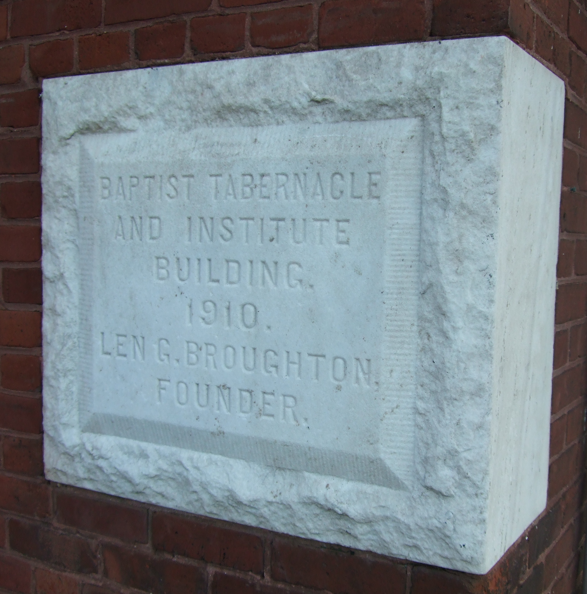 Cornerstone of The Tabernacle building at 152 Luckie Street in downtown Atlanta, Georgia, USA.